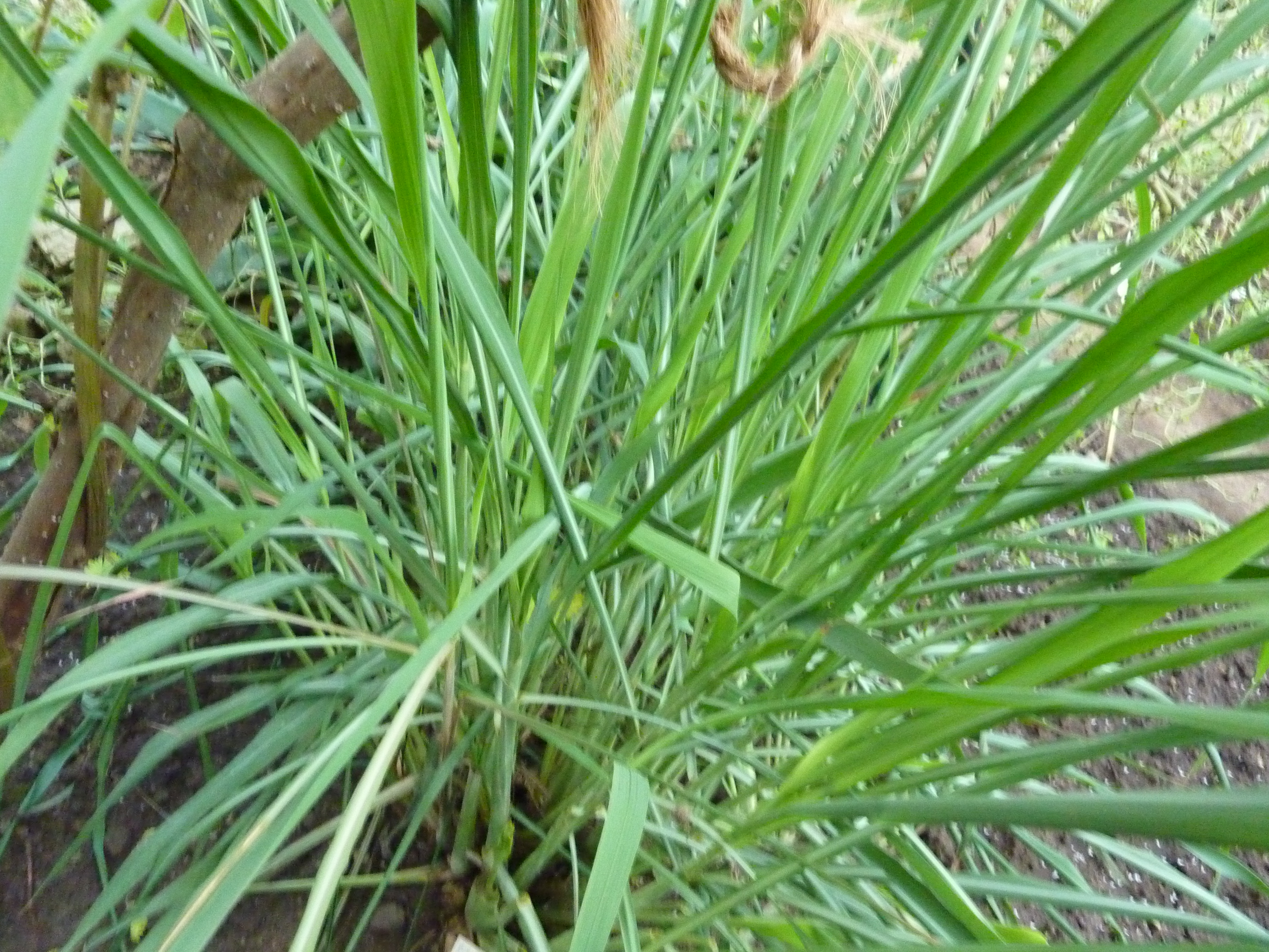 Cymbopogon nardus growing in the greenhouse of the Deutsches Institut für tropische und subtropische Landwirtschaft, Witzenhausen, Germany